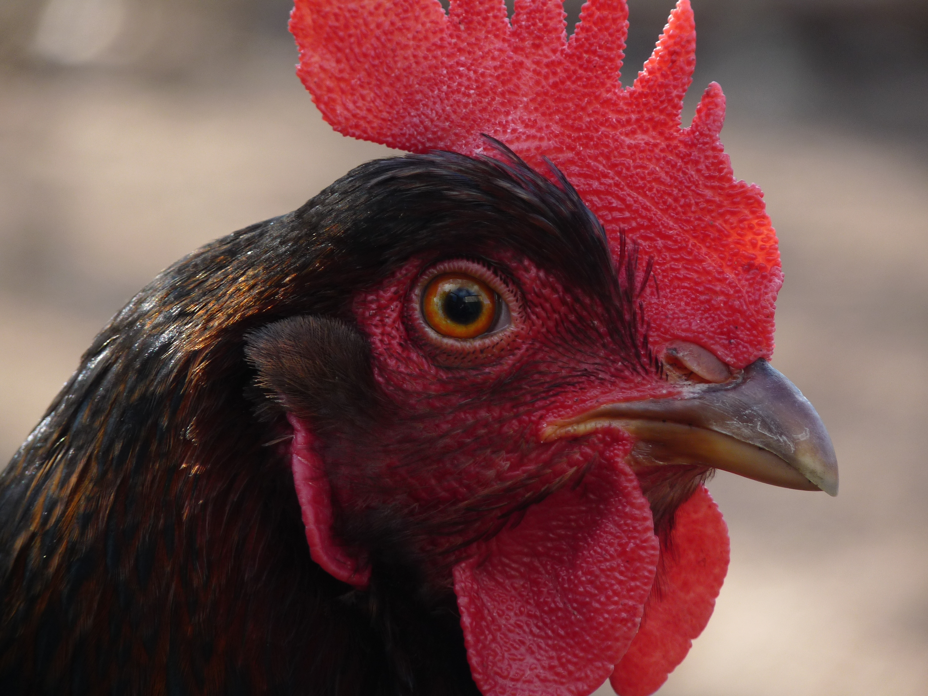 A closeup of the head of a Barnevelder breed hen.